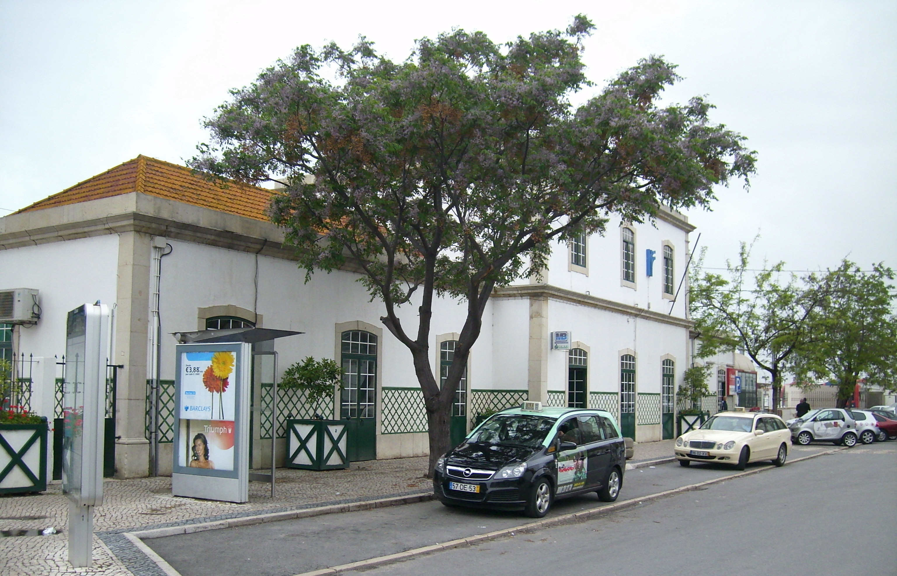 Bahnhof faro